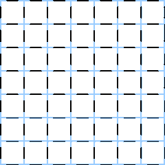 An example of color spreading